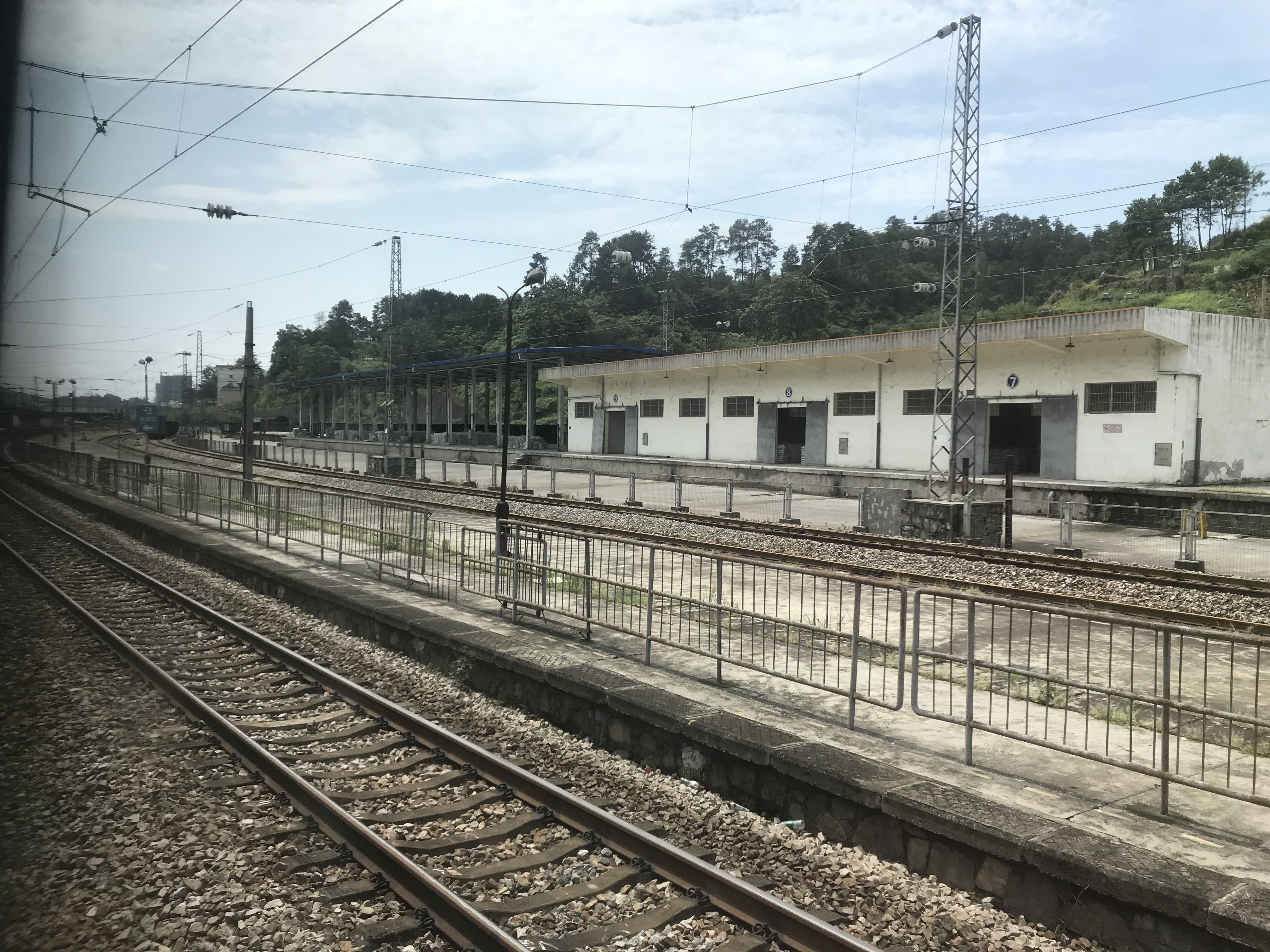 Also stopped here for a while